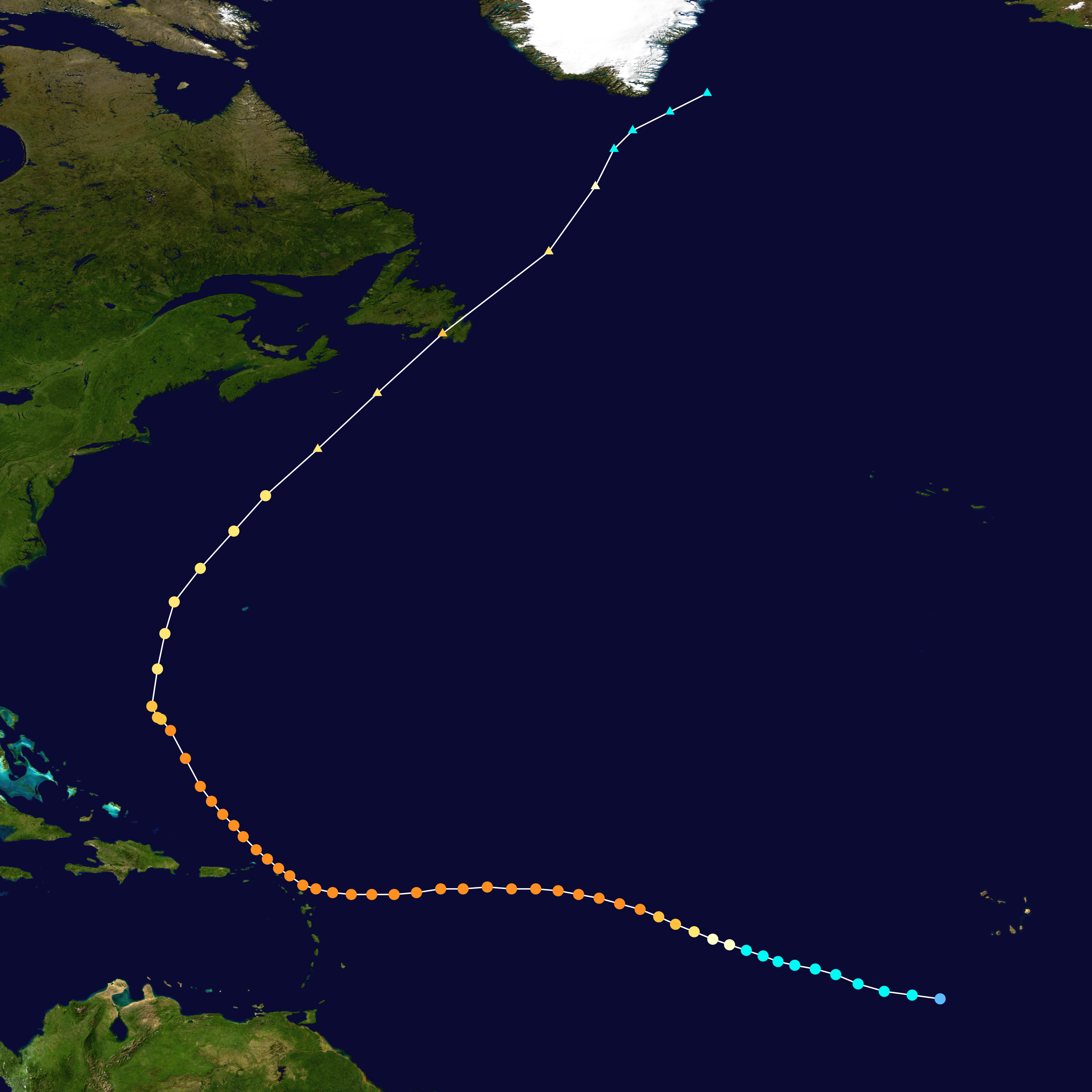 Track map of Hurricane Luis of the 1995 Atlantic hurricane season. The points show the location of the storm at 6-hour intervals. The colour represents the storm's maximum sustained wind speeds as classified in the Saffir–Simpson scale (see below), and the shape of the data points represent the nature of the storm, according to the legend below. Saffir–Simpson scale Tropical depression≤38 mph≤62 km/h Category 3111–129 mph178–208 km/h Tropical storm39–73 mph63–118 km/h Category 4130–156 mph209–251 km/h Category 174–95 mph119–153 km/h Category 5≥157 mph≥252 km/h Category 296–110 mph154–177 km/h Unknown Storm type Tropical cyclone Subtropical cyclone Extratropical cyclone / Remnant low / Tropical disturbance / Monsoon depression